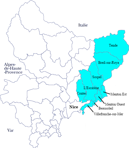 Map of Alpes Maritimes' 4th constituency, France (2010 redistricting, into force from 2012 French legislative elections).